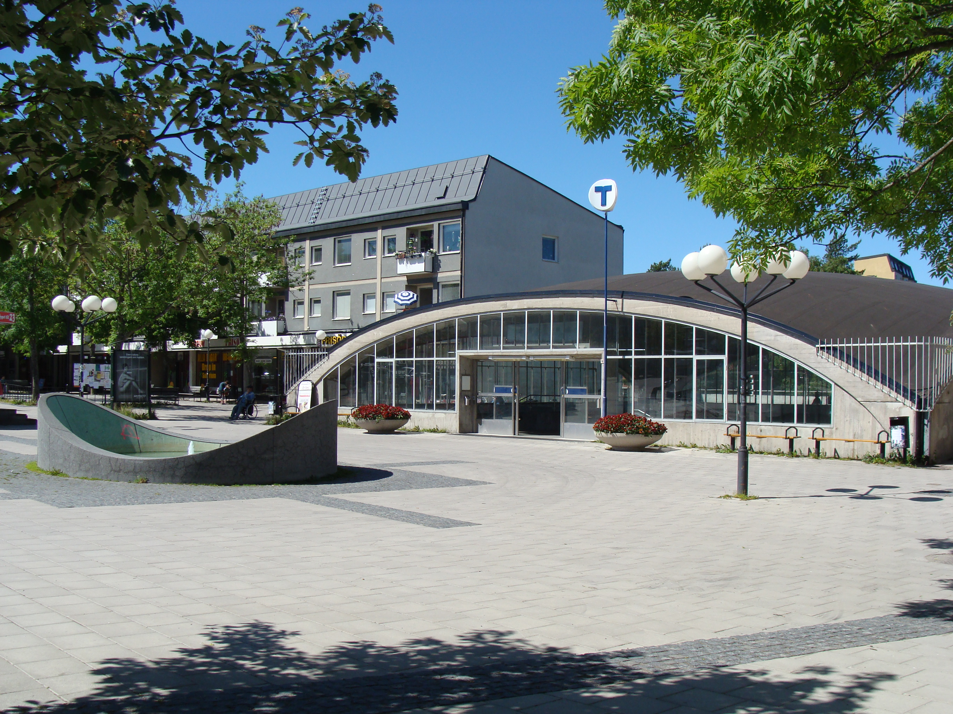 Town square from the 50’s with a subway station made by the famous Swedish architect Peter Celsing.